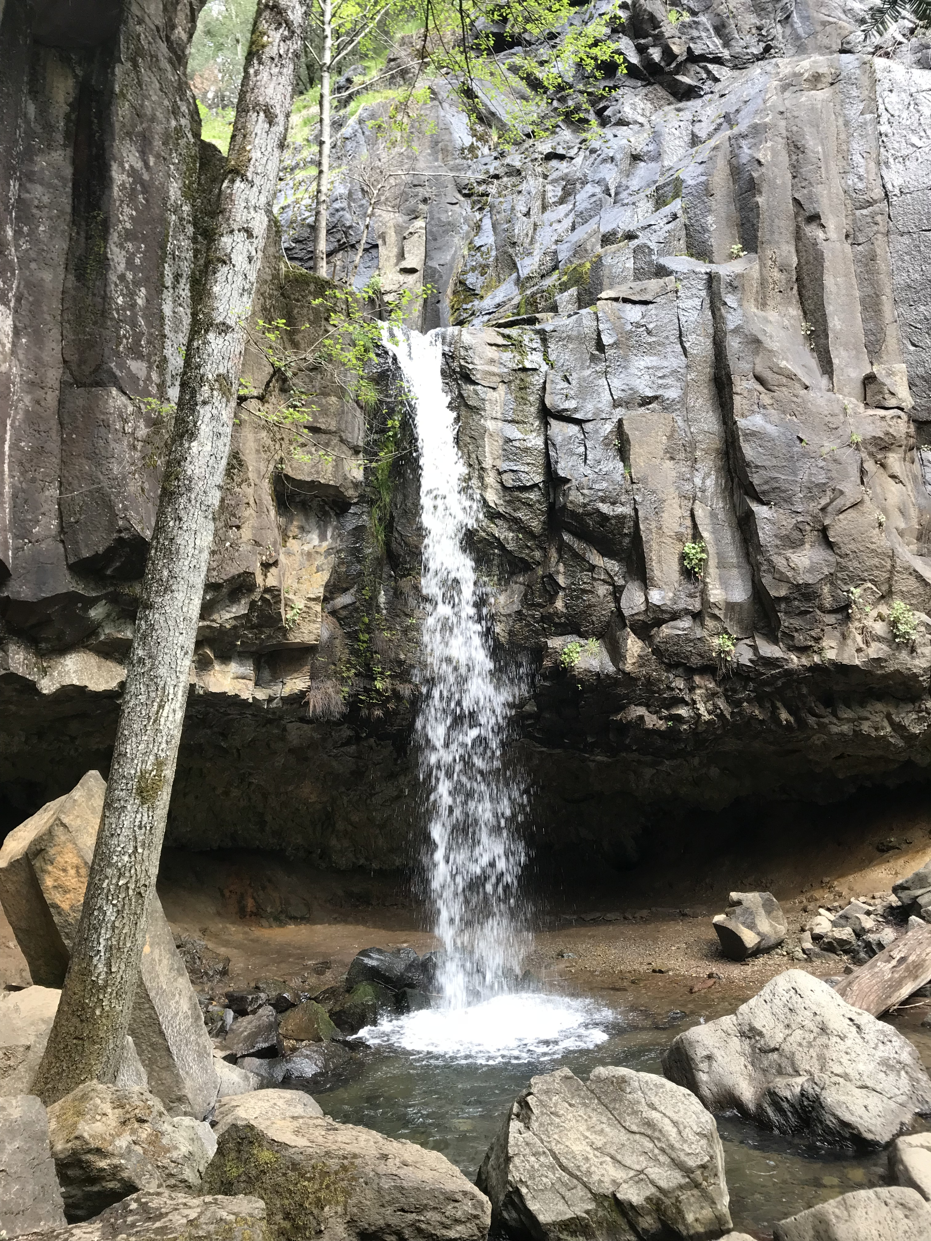 Hedge Creek falls at Aprill